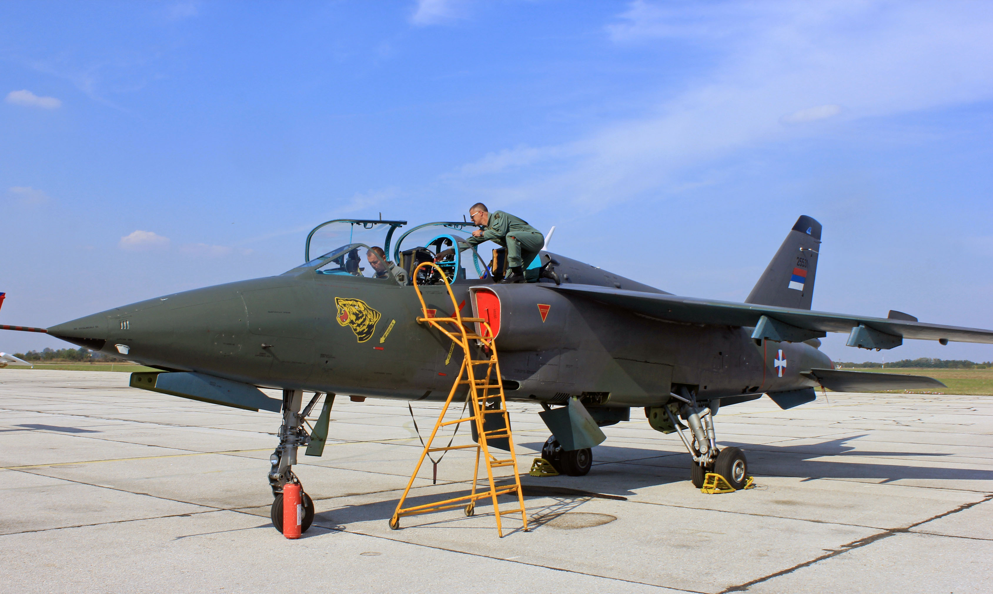 NJ-22 Orao combat aircraft of Serbian Air Force on display at Batajnica Air Base during the open day manifestation.